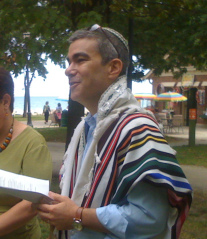 Rabbi Brant Rosen leading a service on August 19, 2009